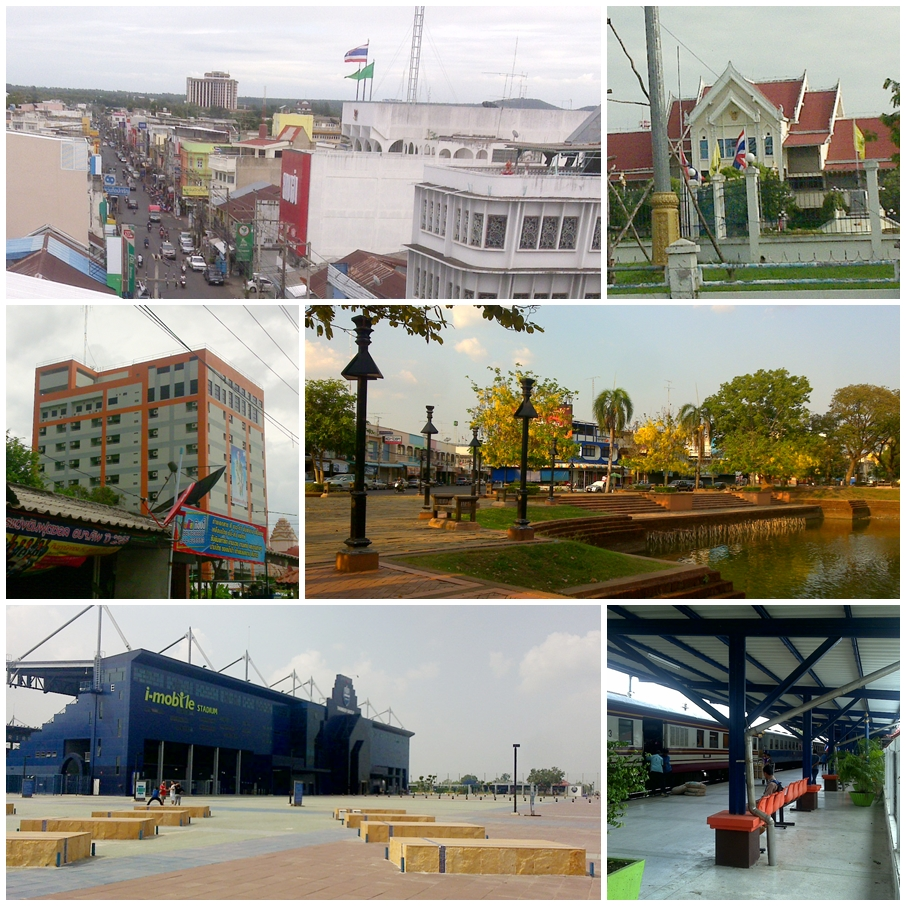 Variety image of Buriram Town.